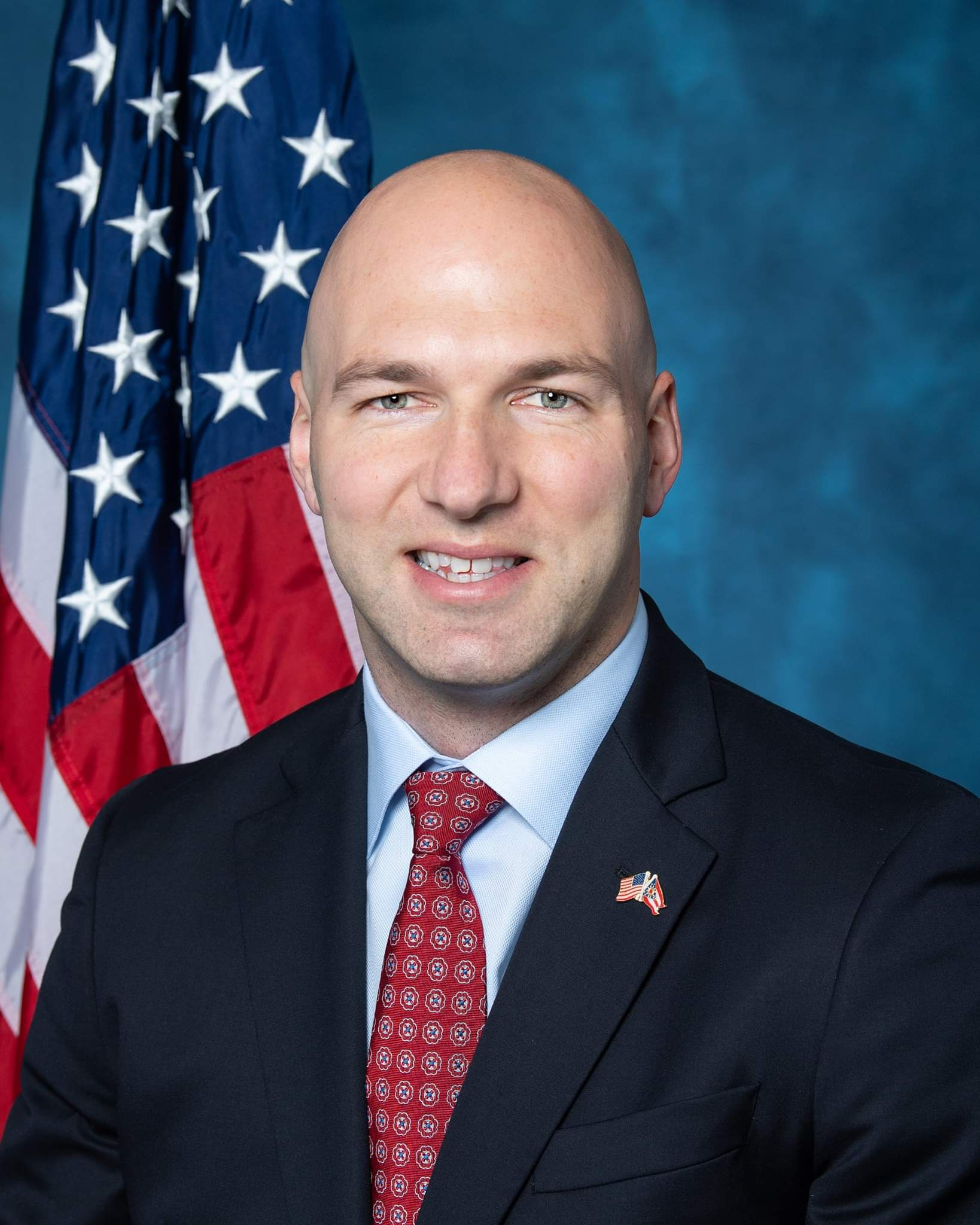 The official portrait of Rep. Anthony Gonzalez (R-OH)